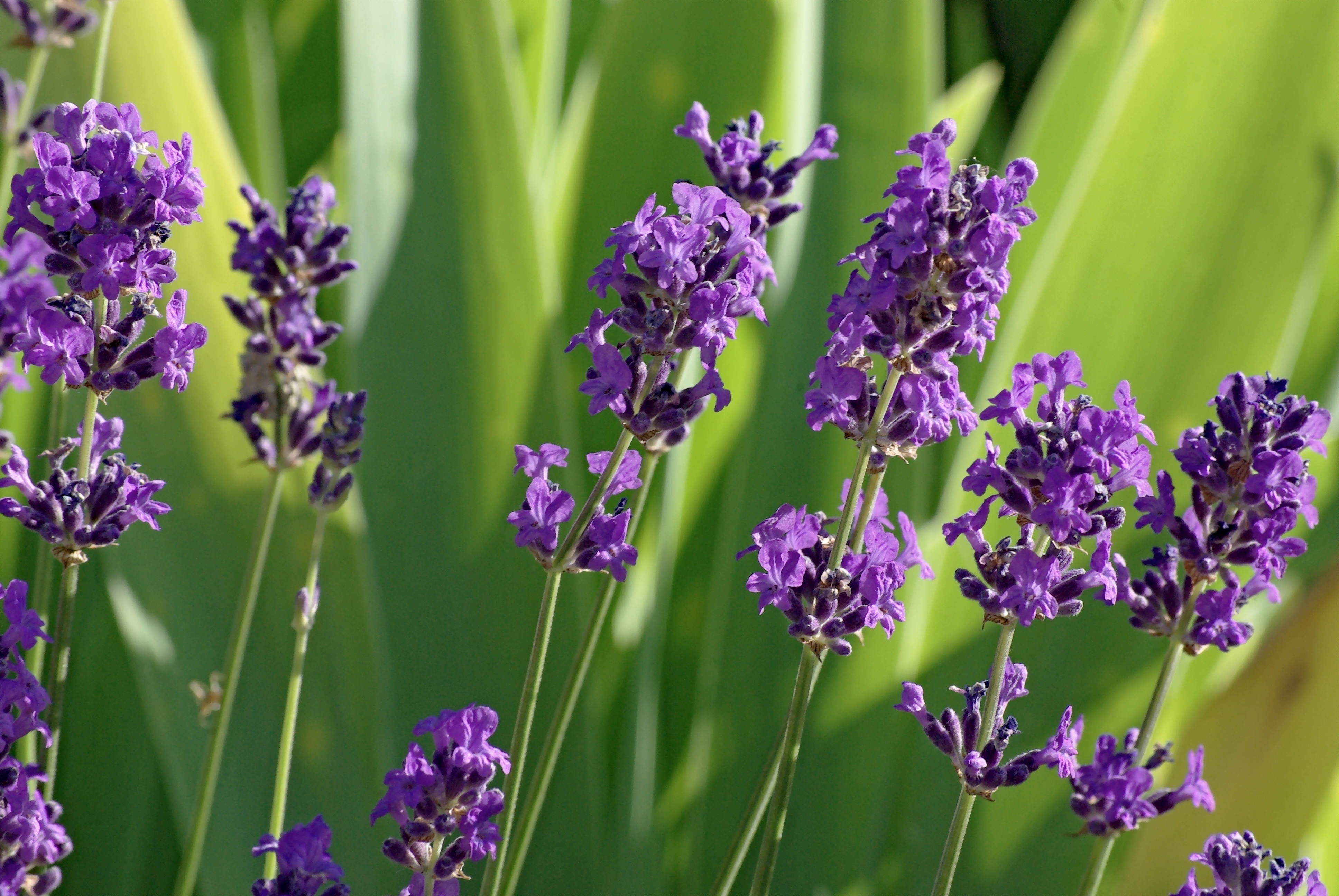 Common lavender (Lavandula angustifolia), garden,France.